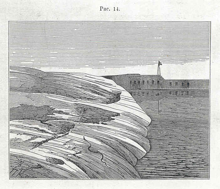 A drawing from Finland showing Skanslandet at Sveaborg fortress outside Helsingfors, made by Peter Krapotkin as a part of his work on Finland and the ice age in 1876. Thw work is in Russian and consists of 800 written pages and numerious drawings, maps and et.c.